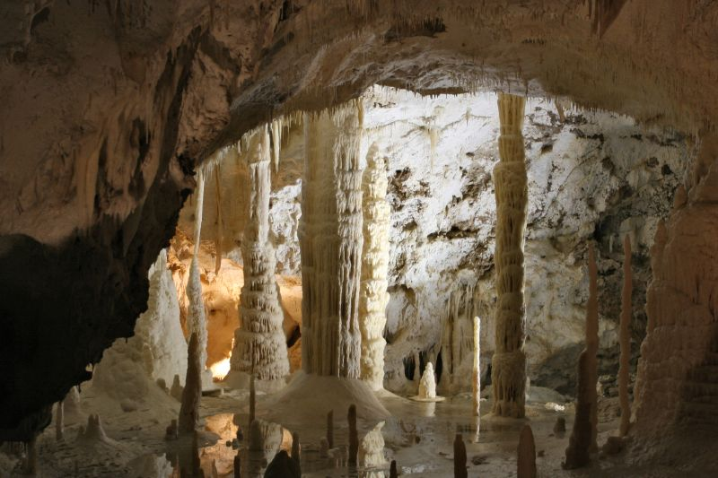 Genga, Marche, Italia